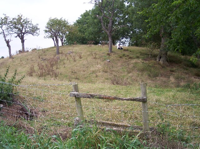 Leigh Castle Tump. A Motte and Bailey Castle from soon after the Norman conquest in 1066.